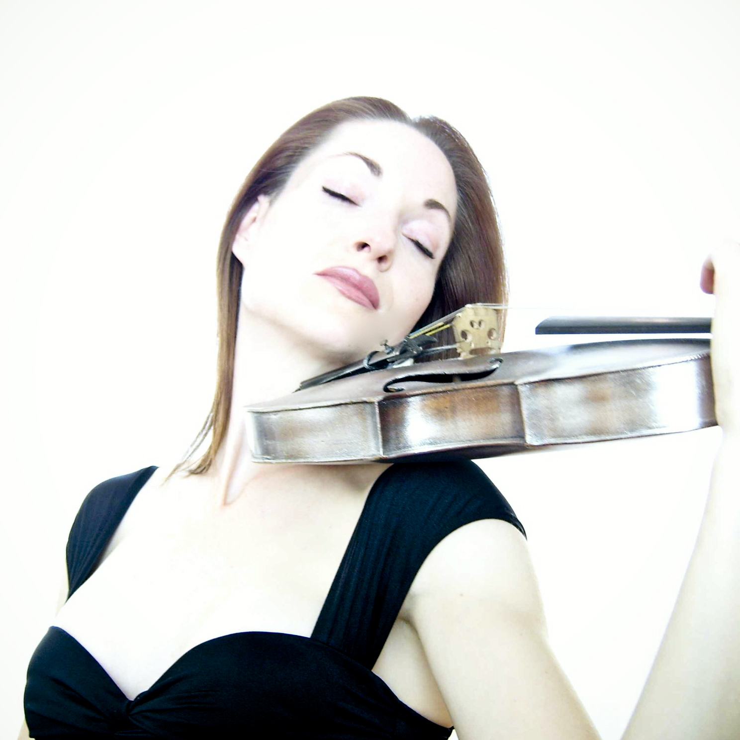 classical violinist Catya Mare